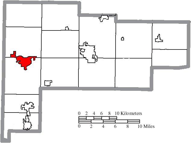 Map of the municipal and township boundaries of Auglaize County, Ohio, United States, as of the 2000 census, with the location of the city of Saint Marys highlighted. Township borders are shown only in unincorporated areas in order to differentiate incorporated and unincorporated areas more clearly.